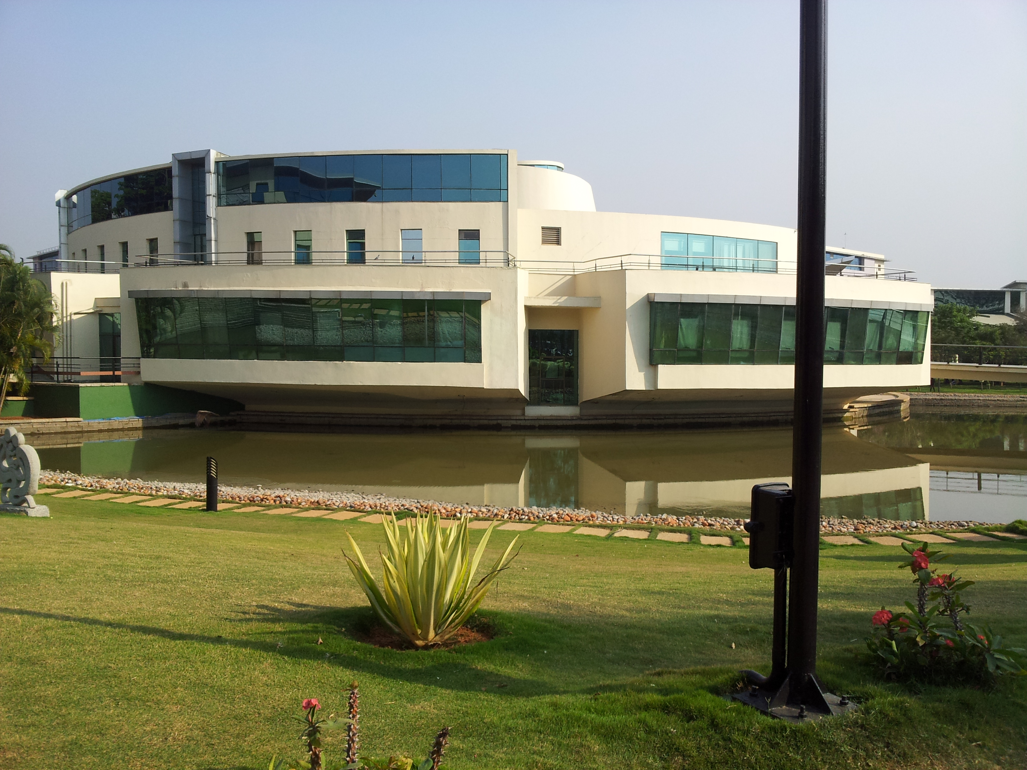 Wipro office snap